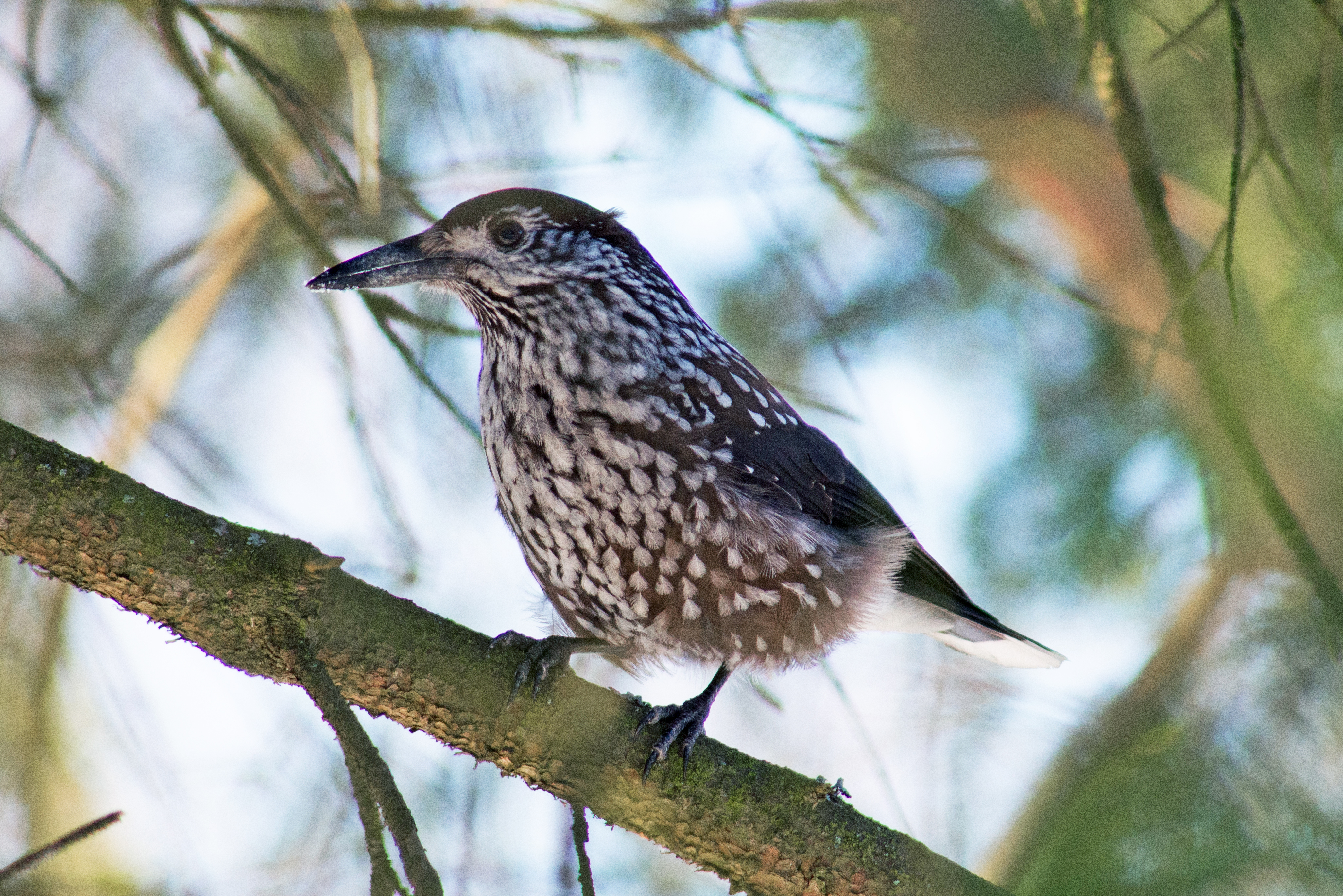 Spotted Nutcracker Nucifraga caryocatactes, Kotka, Finland